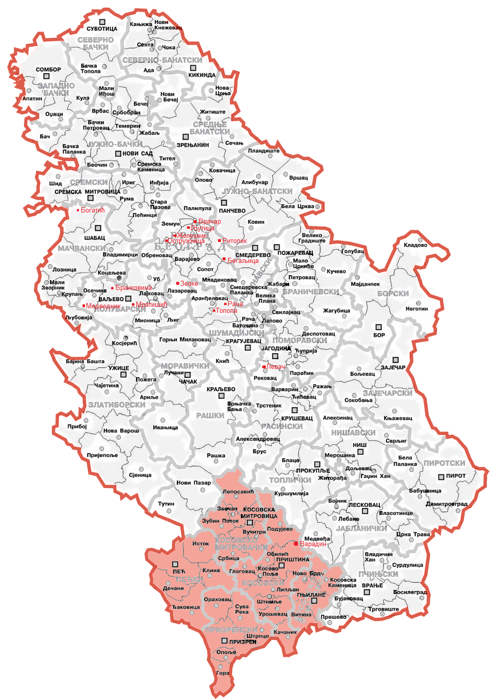 Autori: Korisnik:Milicevic.marta, Korisnik:Milena Petrovic 0404 i Korisnik:Lenkaleni Korišćeno delo: Map of Serbia municipalities (with Kosovo).png Autor:Bože pravde